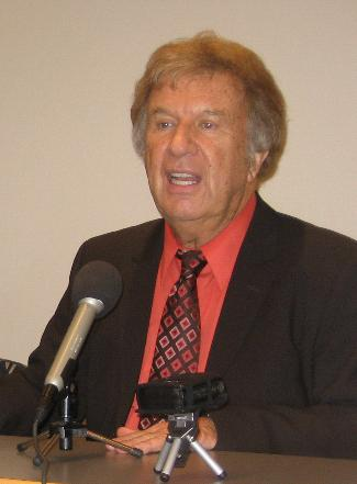 Taken by Simon Larsen at the press conference before the Gaither Homecoming concert in Oslo, Norway, March 15th 2008.